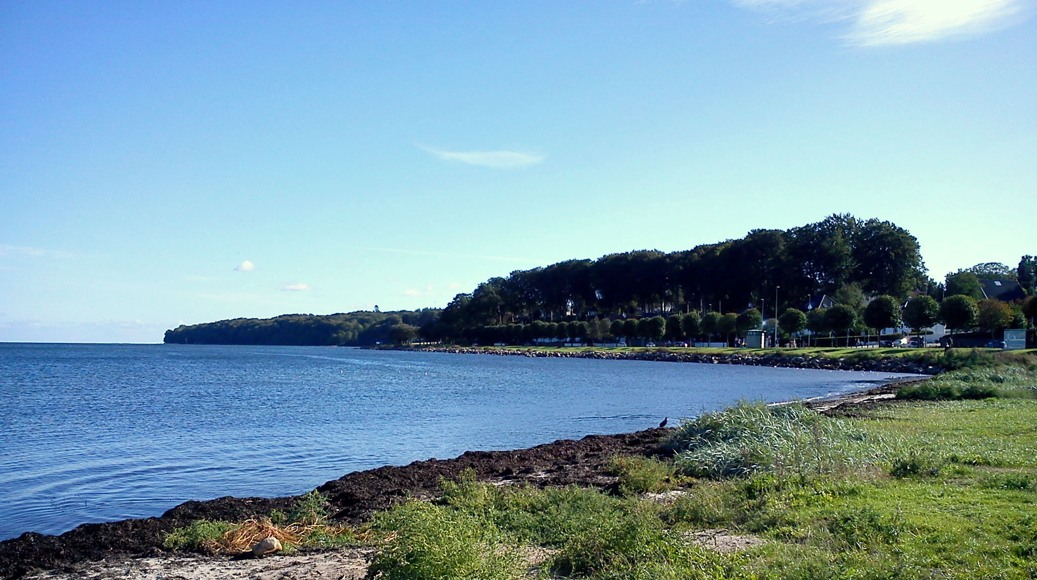 Tangkrogen i Aarhus